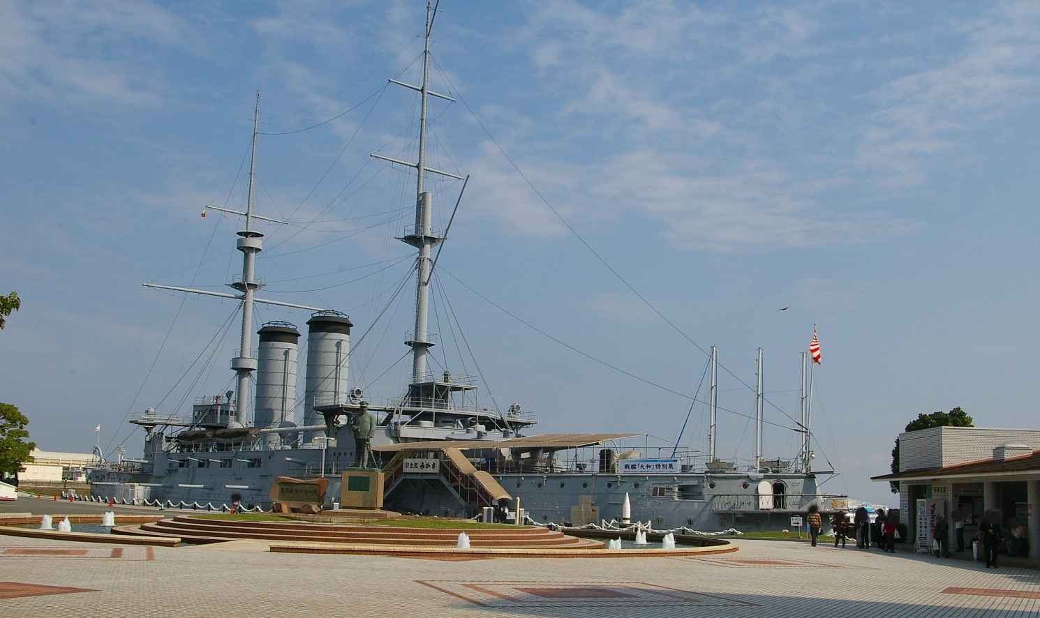 Ich machte dieses Foto von mir in 2006.